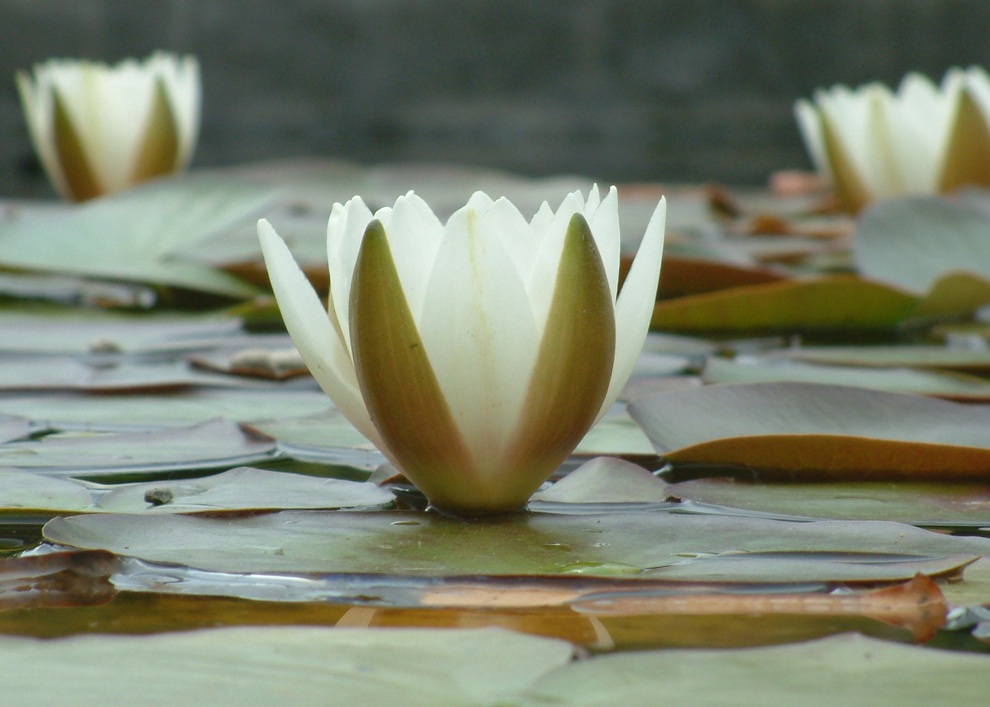 Waterlily, Nymphaea alba